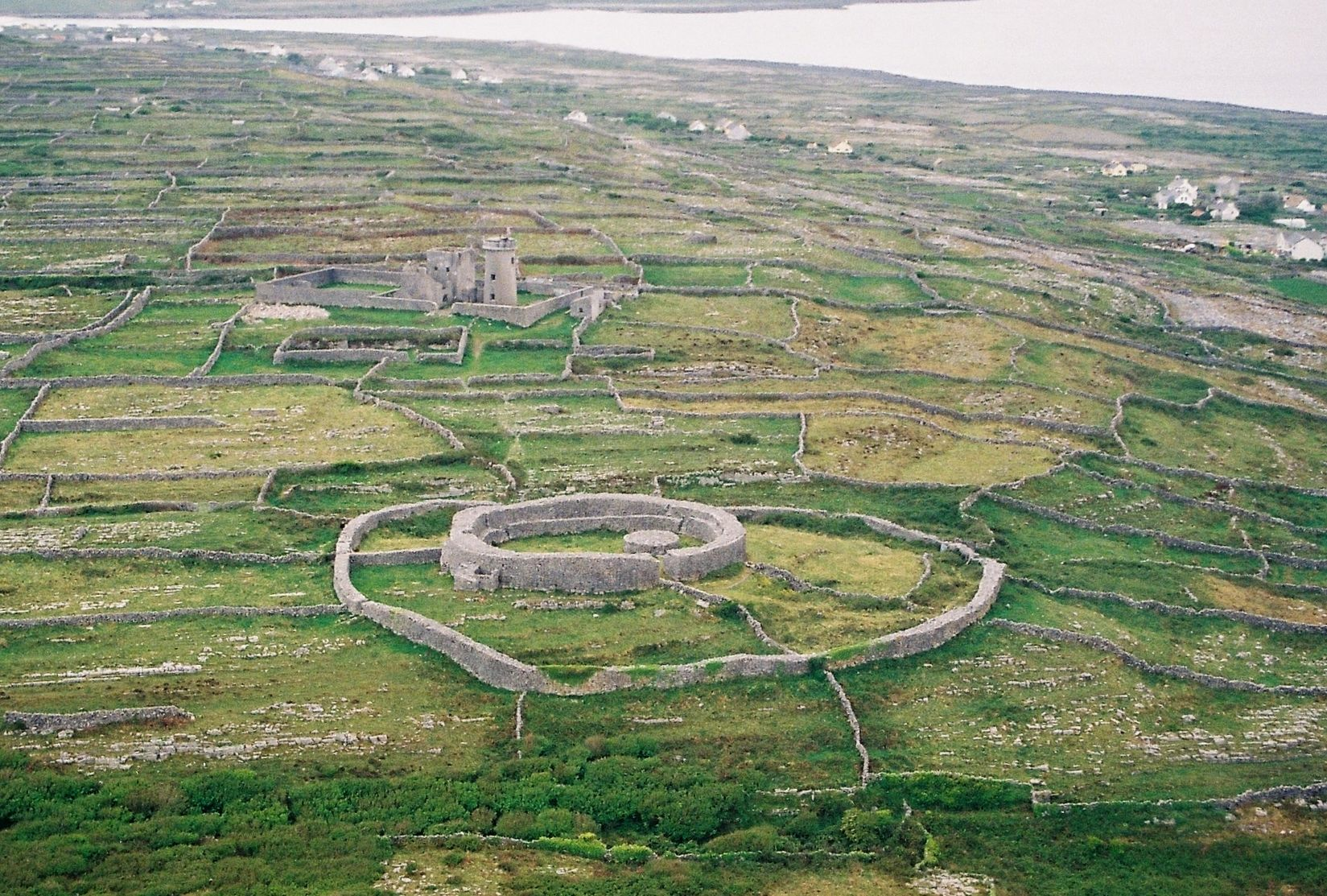 Oghill Cashel